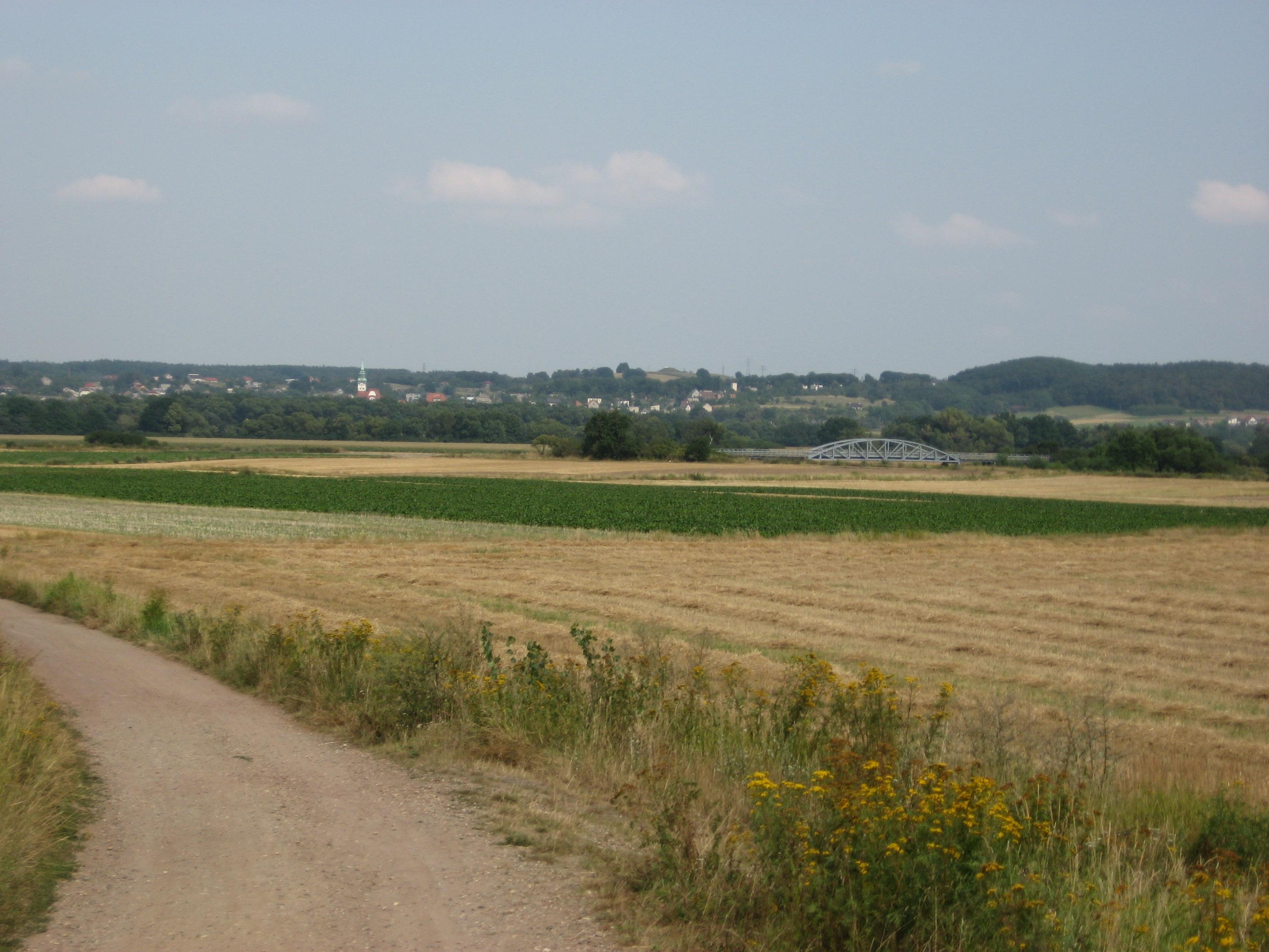 Suburbs in eastern Racibórz seen from a gravel road between the Oder River and the Ulga Canal. On the right you can see a small bridge over the Ulga Canal. In the distance the church of the suburb Brzezie is visible.